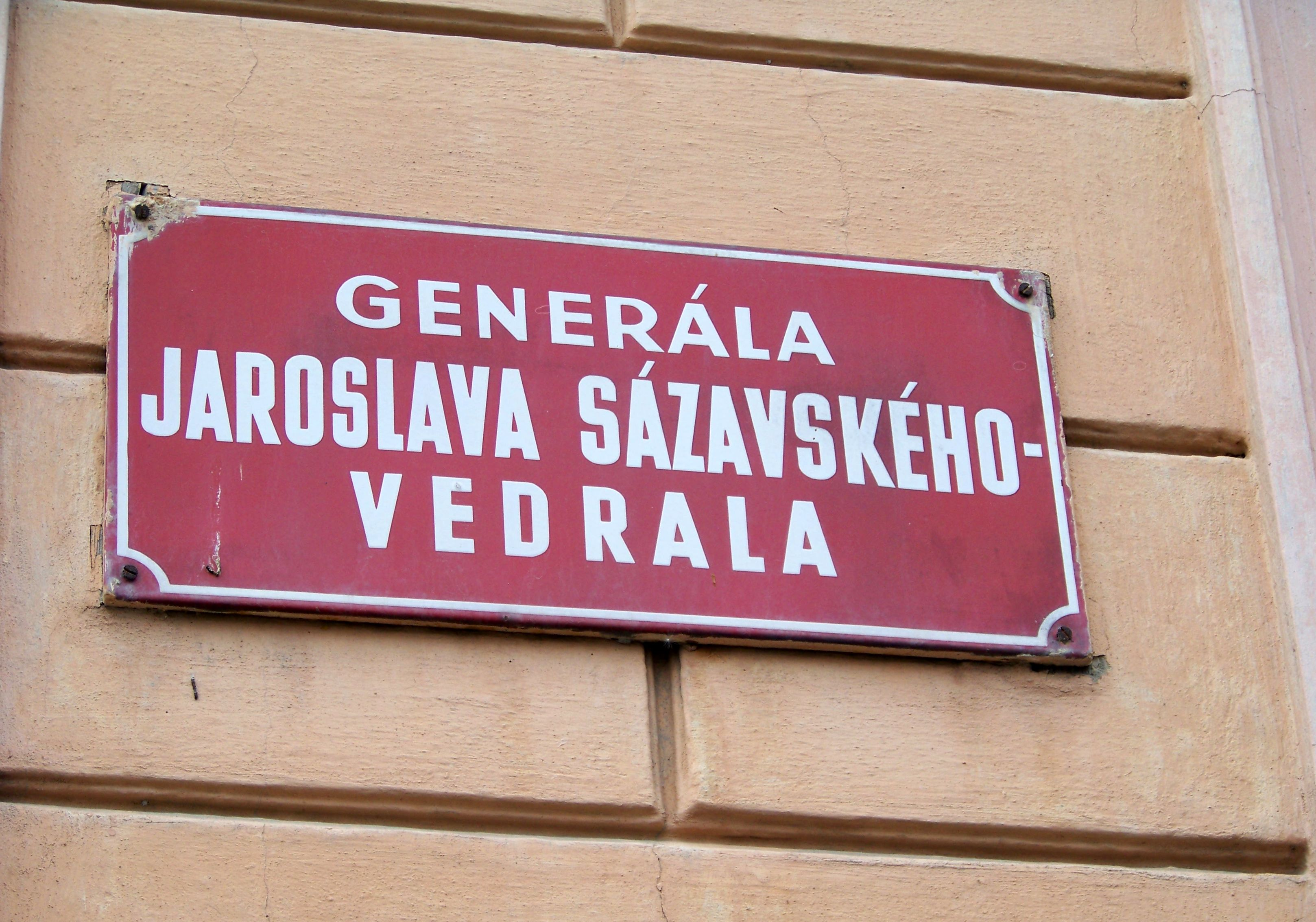 Kostelec nad Černými lesy, Prague-East District, Central Bohemian Region, the Czech Republic. A street sign.